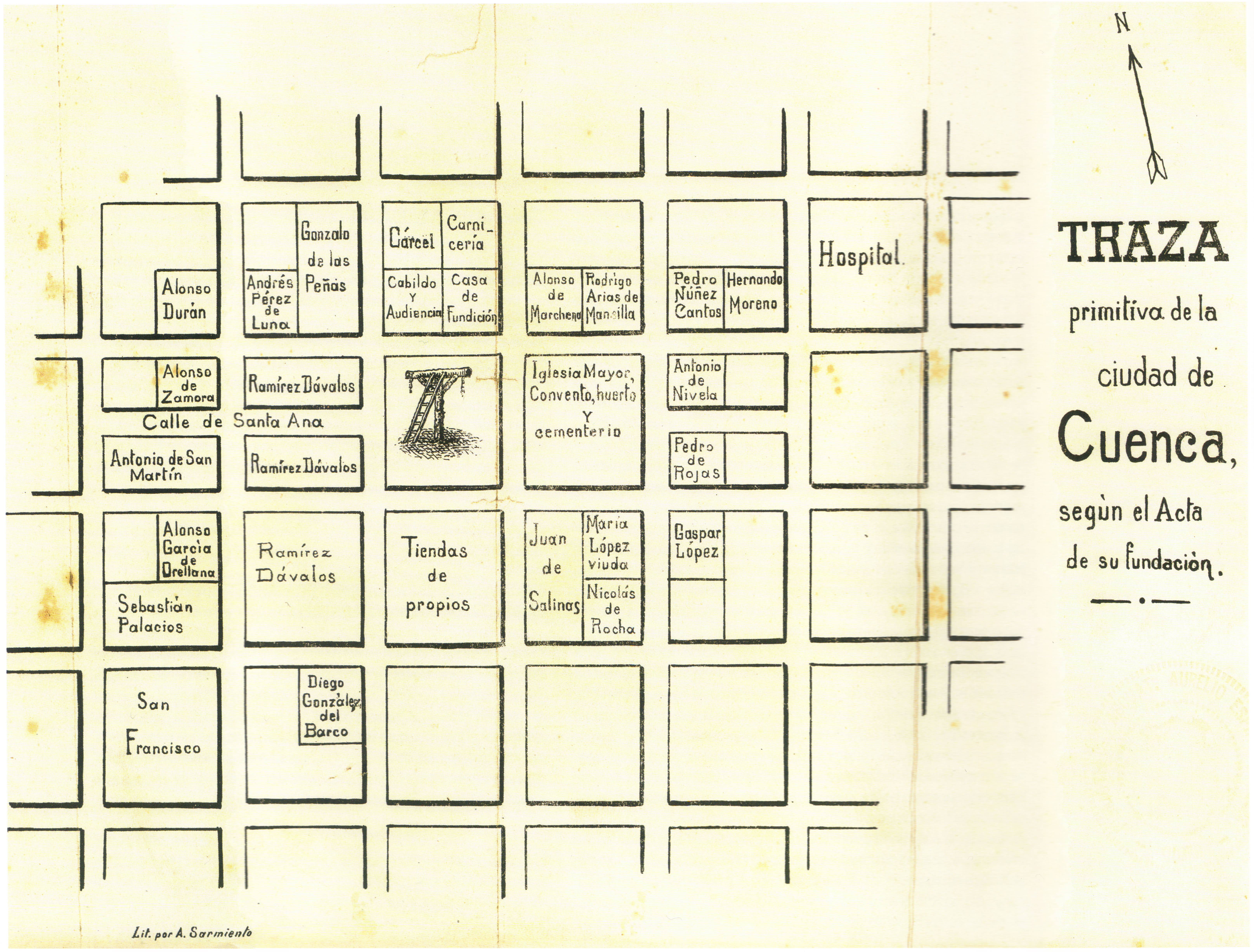 Urban layout of the city of Cuenca, Ecuador, created by Octavio Cordero Palacios (1870-1930), with lithography of A. Sarmiento, for his book "Miscelánea histórica del Azuay" (Historical Miscellany of Azuay) (1915). It is a reinterpretation of the original layout of the city according to its certificate of establishment given by Gil Ramirez Davalos on April 12, 1557.